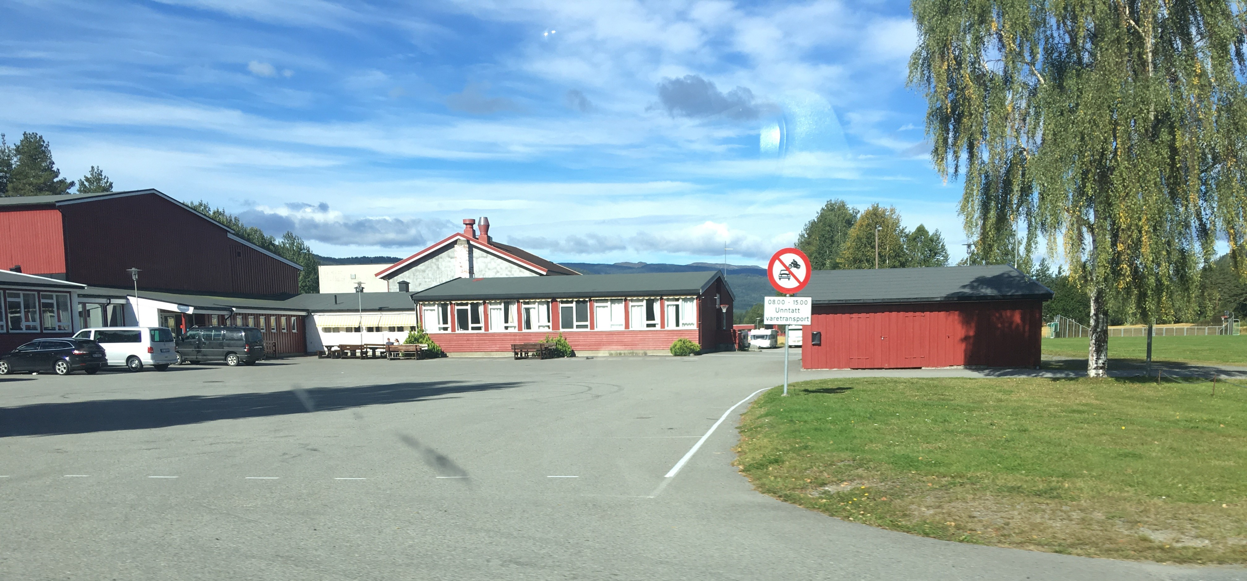 Flesberg School, in Buskerud (Norway)